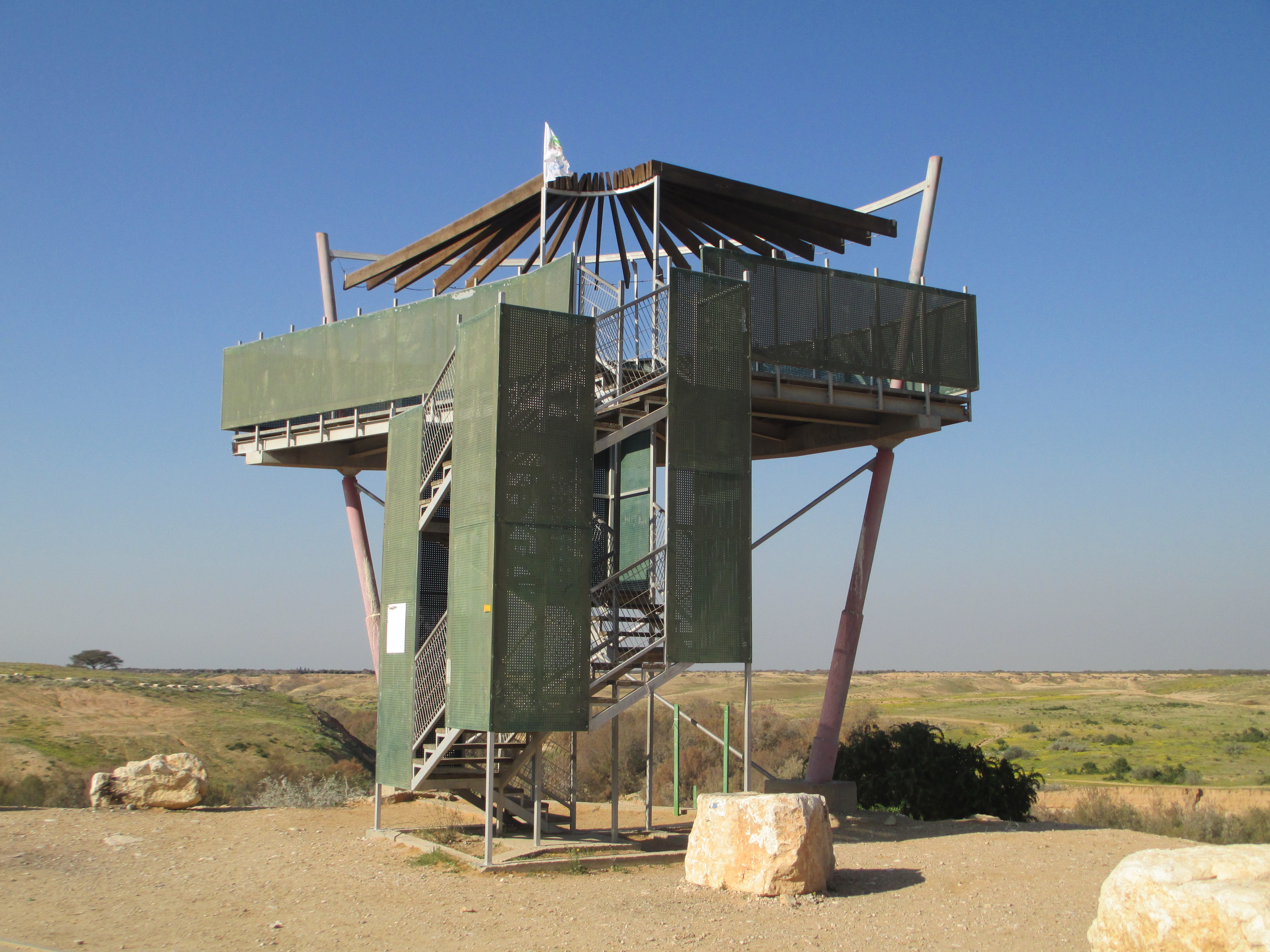 Observation tower in Habsor river